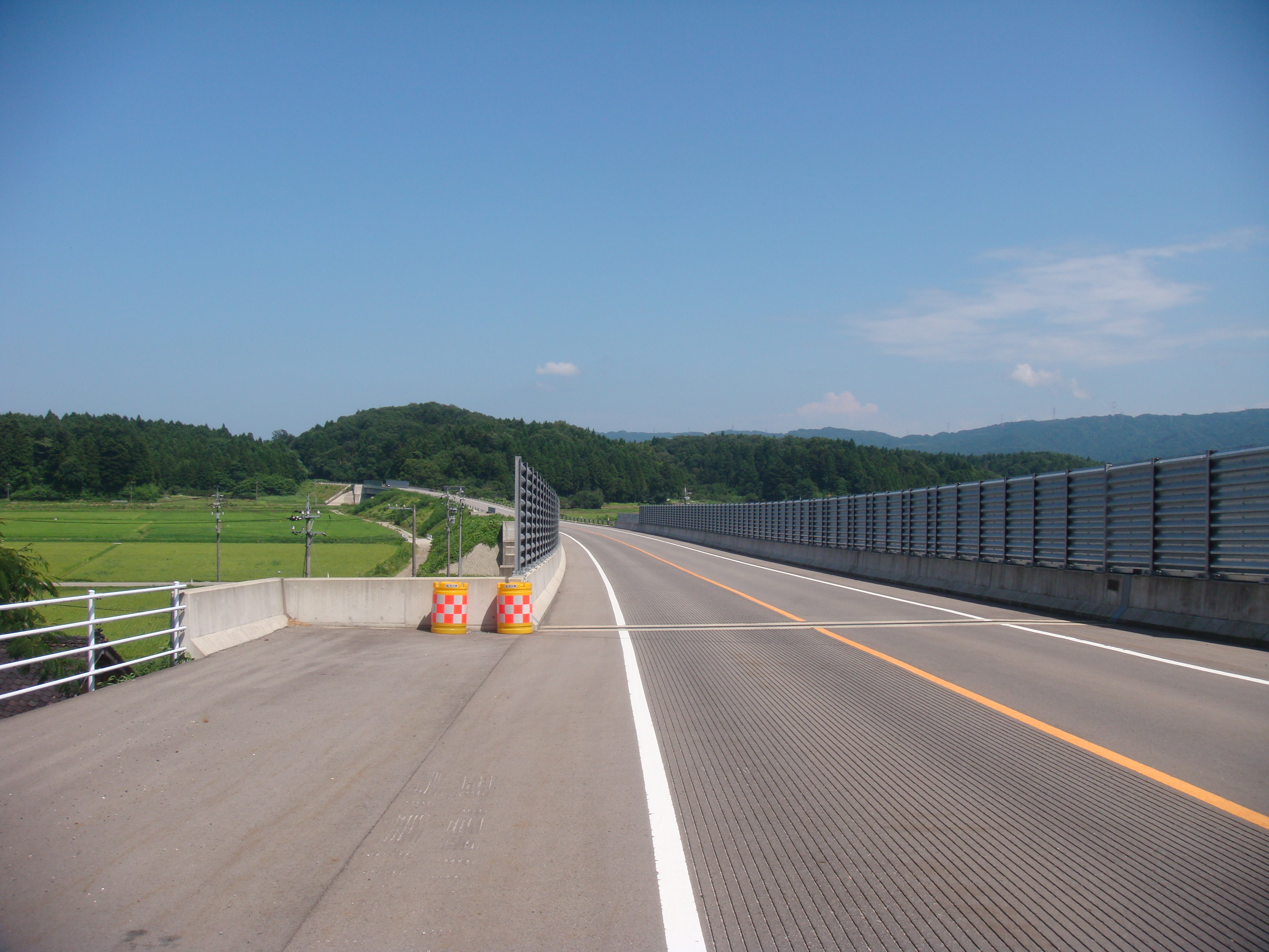 Ishikawa Prefectural Road Route 298（Nanao-Toriya Line） Place - Nishimikai,Nanao City,Ishikawa Prefecture,Japan Date - August 5, 2011 Format - JPEG, 3648x2736pixel, 24bit colors Photographer - NALA Wiki (talk)